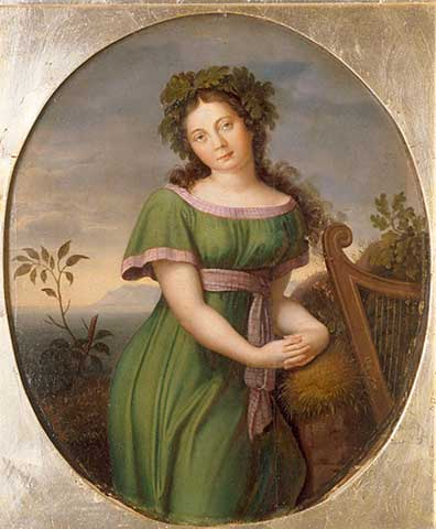 Soprano Anna Milder as Malvina in Jean-François Le Sueur's opera Ossian (1804) (or, more likely, as Malvina in Étienne Méhul's opera Uthal (1806) which was originally named Malvina)